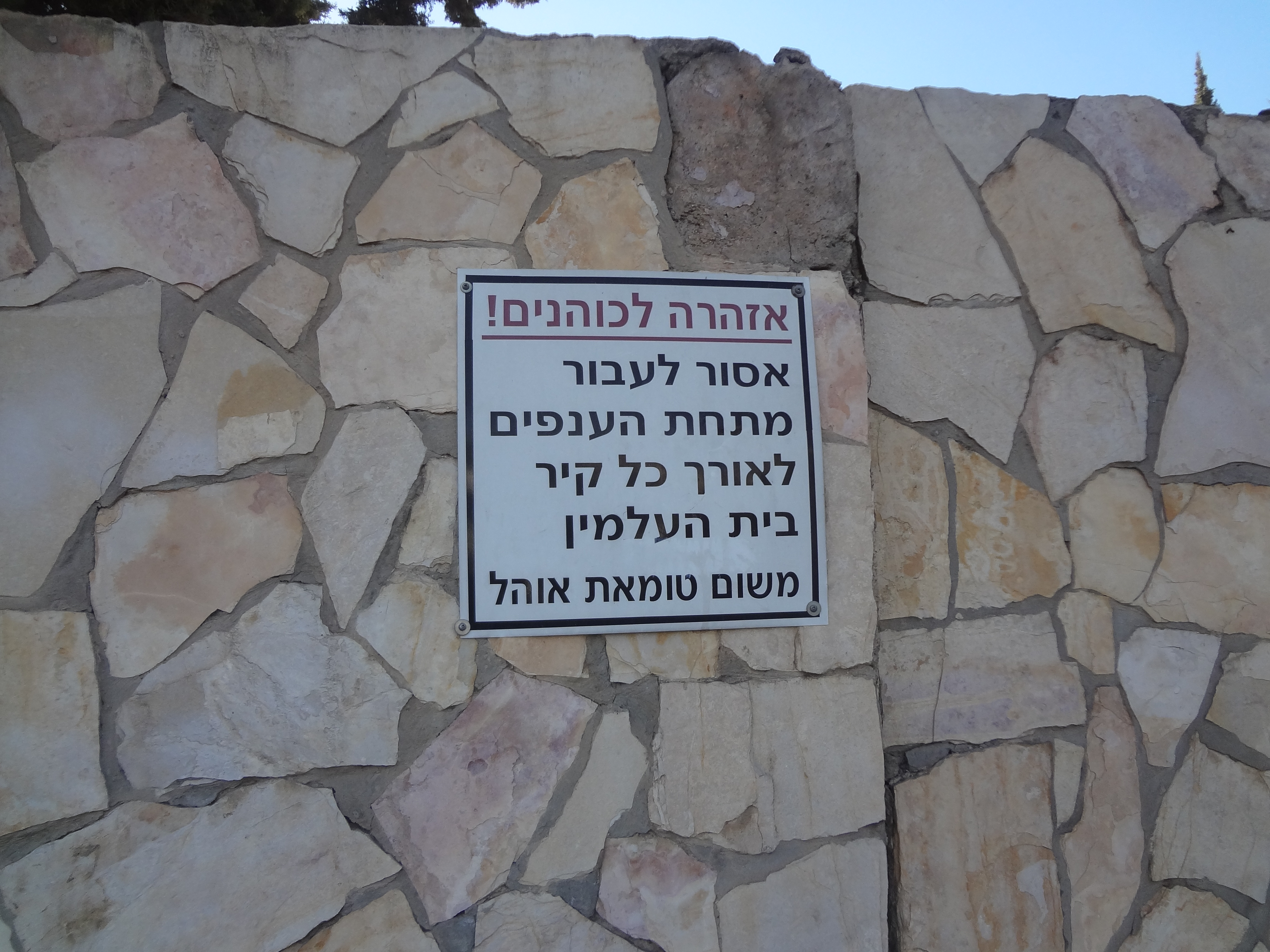 Warning sign to cohanim. Seen outside the Sanhedria Cemetery in Jerusalem